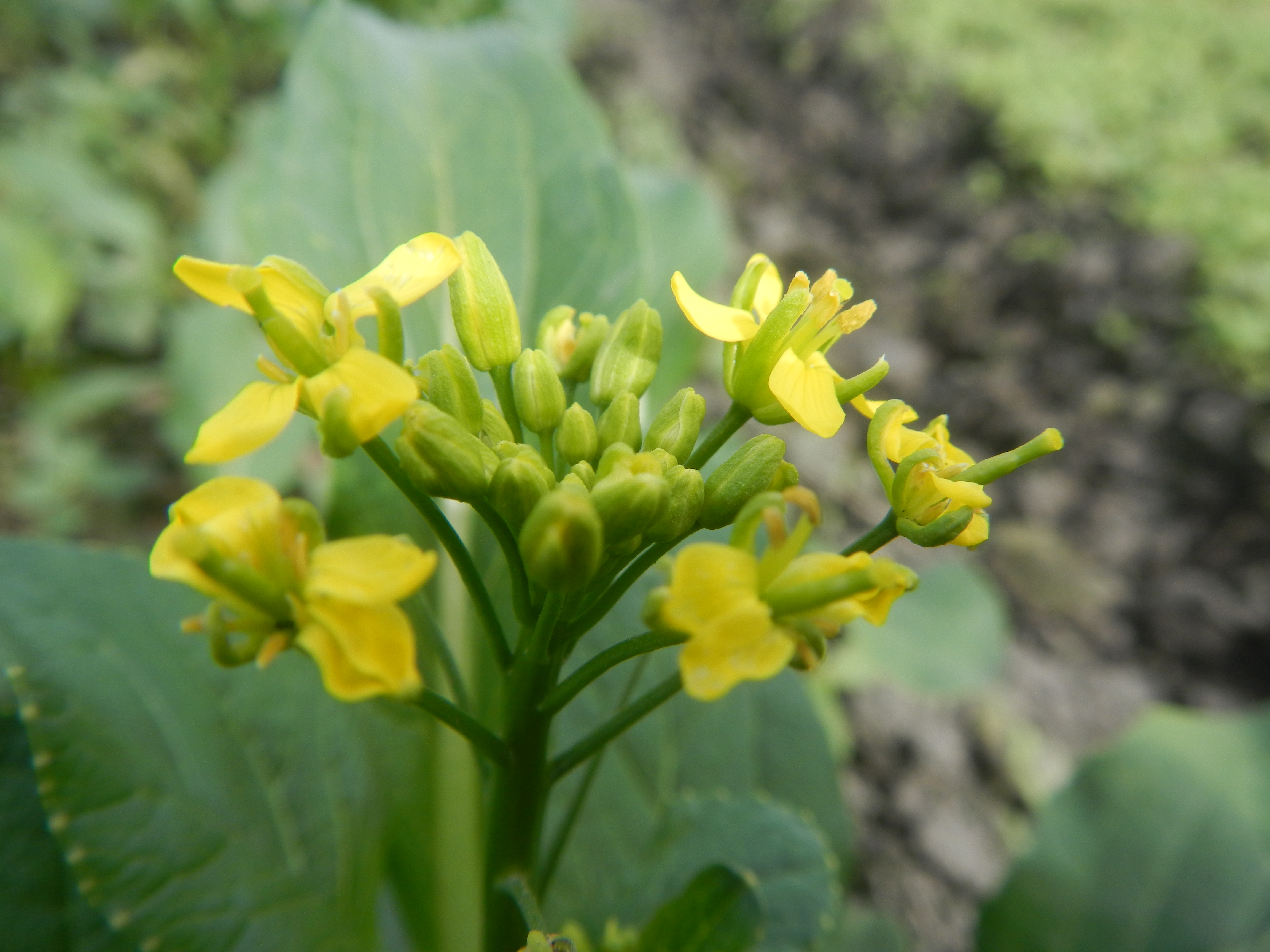 Vegetable plantations in Pulilan, Bulacan including the Ipomoea aquatica Ipomoea aquatica Kangkong Tsina LP Kangkong Ipomoea aquatica Forsk. Convolvulus reptans Linn. Bok choy Brassica rapa subsp. chinensis or Brassica rapa subsp. chinensis var. parachinensis Gai Lan Kai-lan Kailan Kena brocolli leaves broccoli cultivated for the leaves Chinese broccoli; Spinacia oleracea Spinach fields in Barangay Taal, Pulilan, Bulacan Vegetable plantations from the Pulilan-Baliuag interior National Road and towards along Pan-Philippine Highway, also known as the Maharlika "Nobility/freeman" Highway in Cagayan Valley Road (Note: Judge Florentino Floro, the owner, to repeat, Donor Florentino Floro of all these photos hereby donate gratuitously, freely and unconditionally all these photos to and for Wikimedia Commons, exclusively, for public use of the public domain, and again without any condition whatsoever).